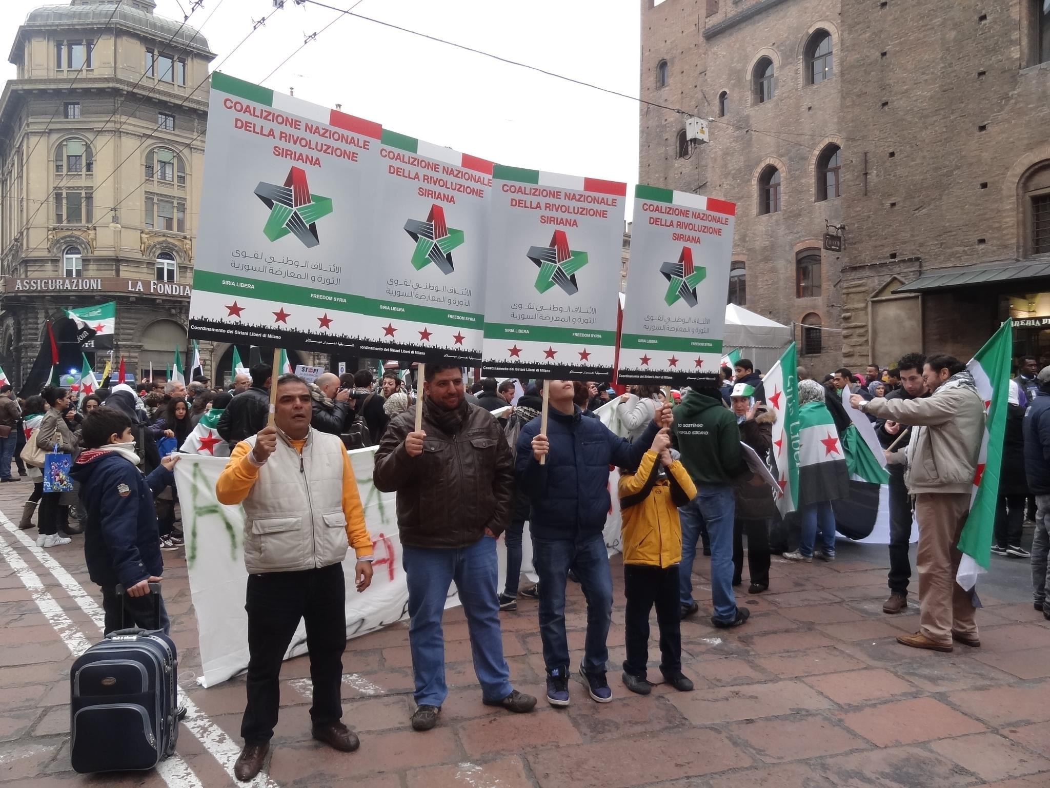 Supporters of Syrian National Coalition in Bologna, Italy 17-11-2012.jpg